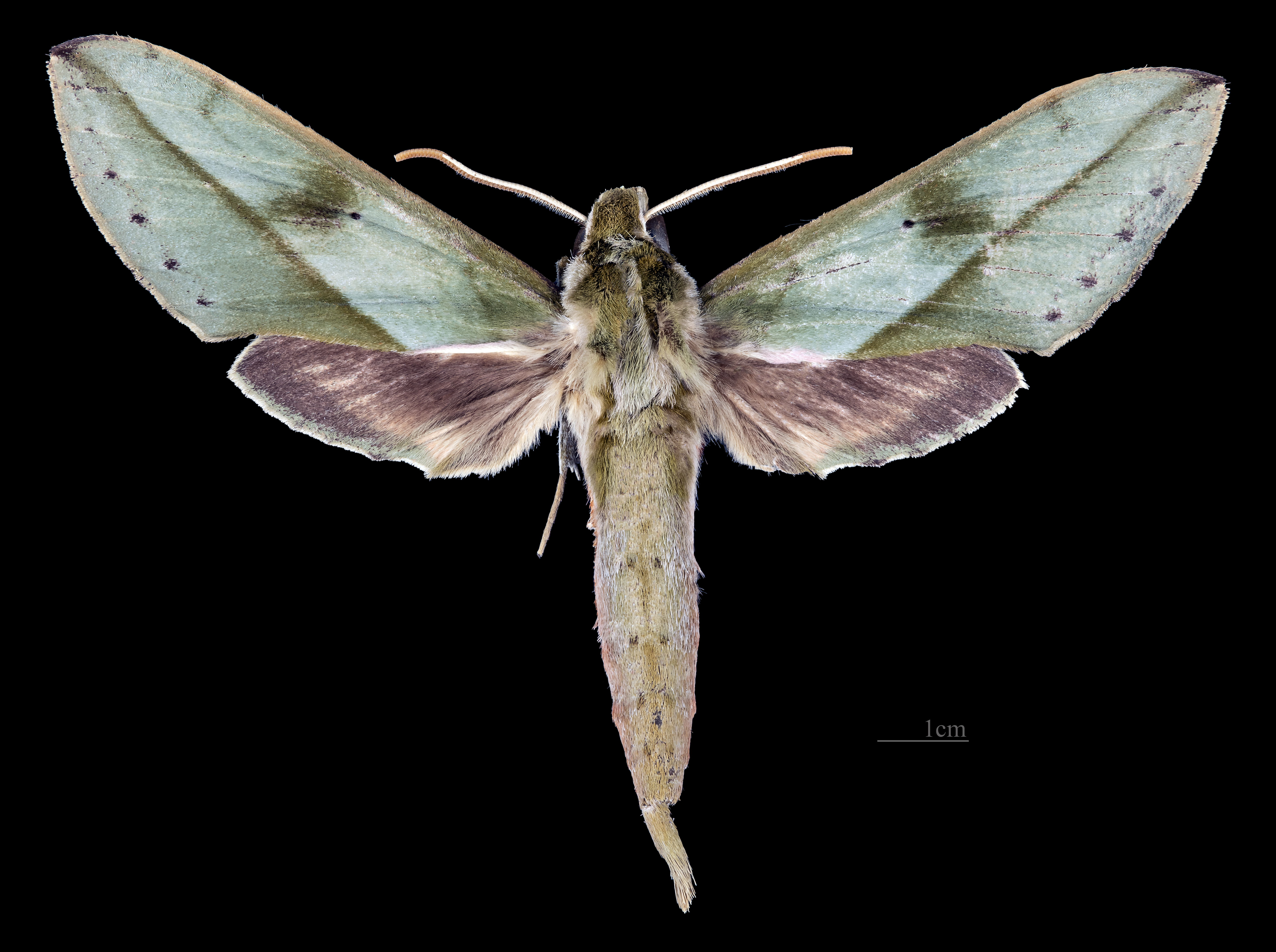 Xylophanes rothschildi - Dorsal side Collection of the Mathematician Laurent Schwartz